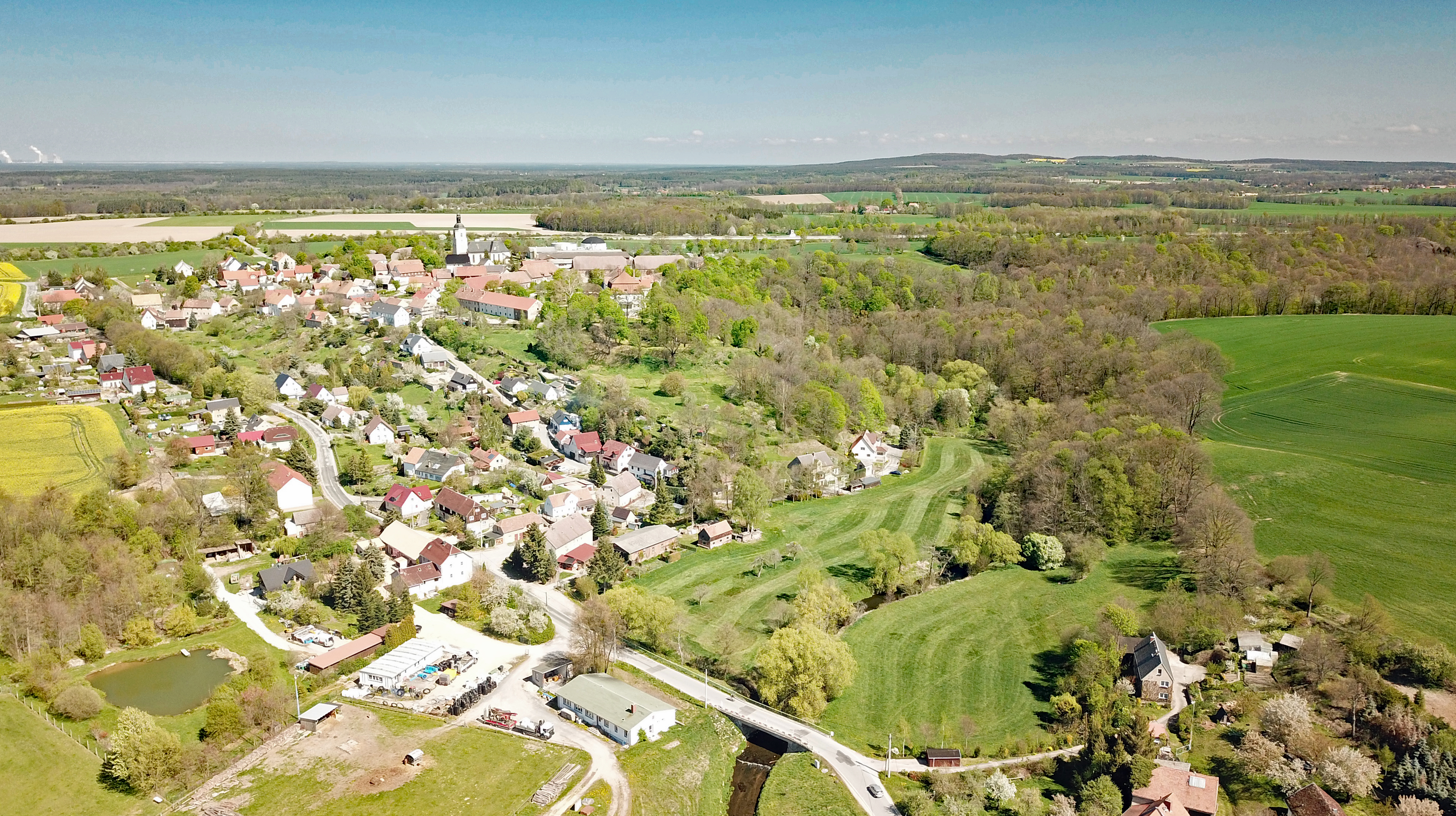 Gröditz, Weißenberg, Saxony, Germany Hornjoserbsce: Powětrowy wobraz Hrodźišća pola Wósporka Dieses Foto wurde mit einem Quadcopter innerhalb der RMZ des Flugplatzes EDAB aufgenommen. Der Flugleiter wurde am Aufnahmetag telephonisch über Ort und Zeit informiert und hat zugestimmt. Der Flug erfolgte auf Grundlage der Allgemeinverfügung der Landesdirektion Sachsen zur Erteilung der Betriebserlaubnis für unbemannte Luftfahrtsysteme und Flugmodelle gemäß § 21a LuftVO und Zulassung von Ausnahmen von Betriebsverboten gemäß § 21b LuftVO für den Freistaat Sachsen.